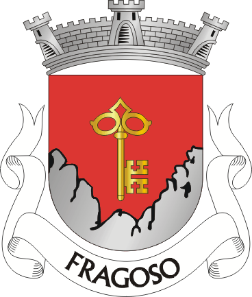 Crest of Fragoso, a parish in the municipality of Barcelos (Portugal)